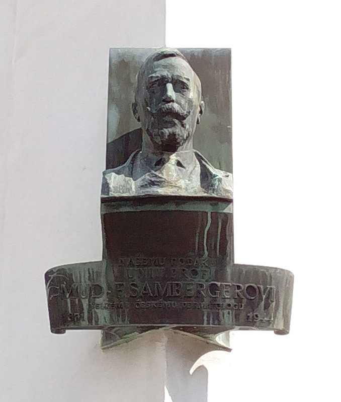 Bust of MUDr. František Šamberger at town hall in Kout na Šumavě, Plzeň Region, Czech Republic.